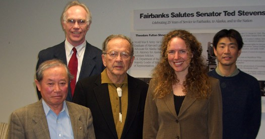 Senator Ted Stevens with researchers from the International Arctic Research Center. Research done by Dr. Katey Walter (second from right) found that melting permafrost will release methane, one of the most potent greenhouse gases. Syun-Ichi Akasofu left. Former director Larry Hinzman (back left) and events manager Tohru Saito included.